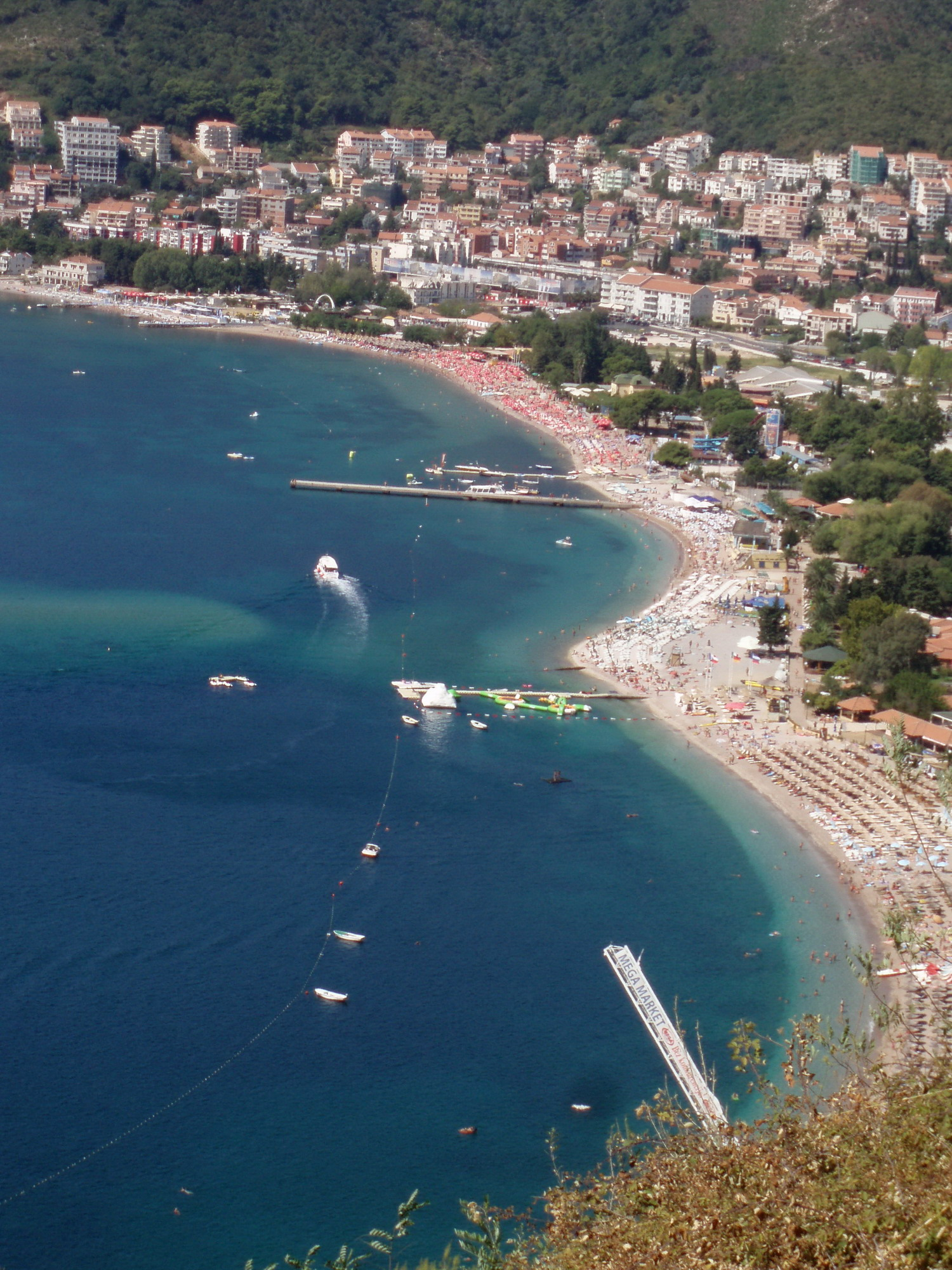 Beach Slovenska, 2008.